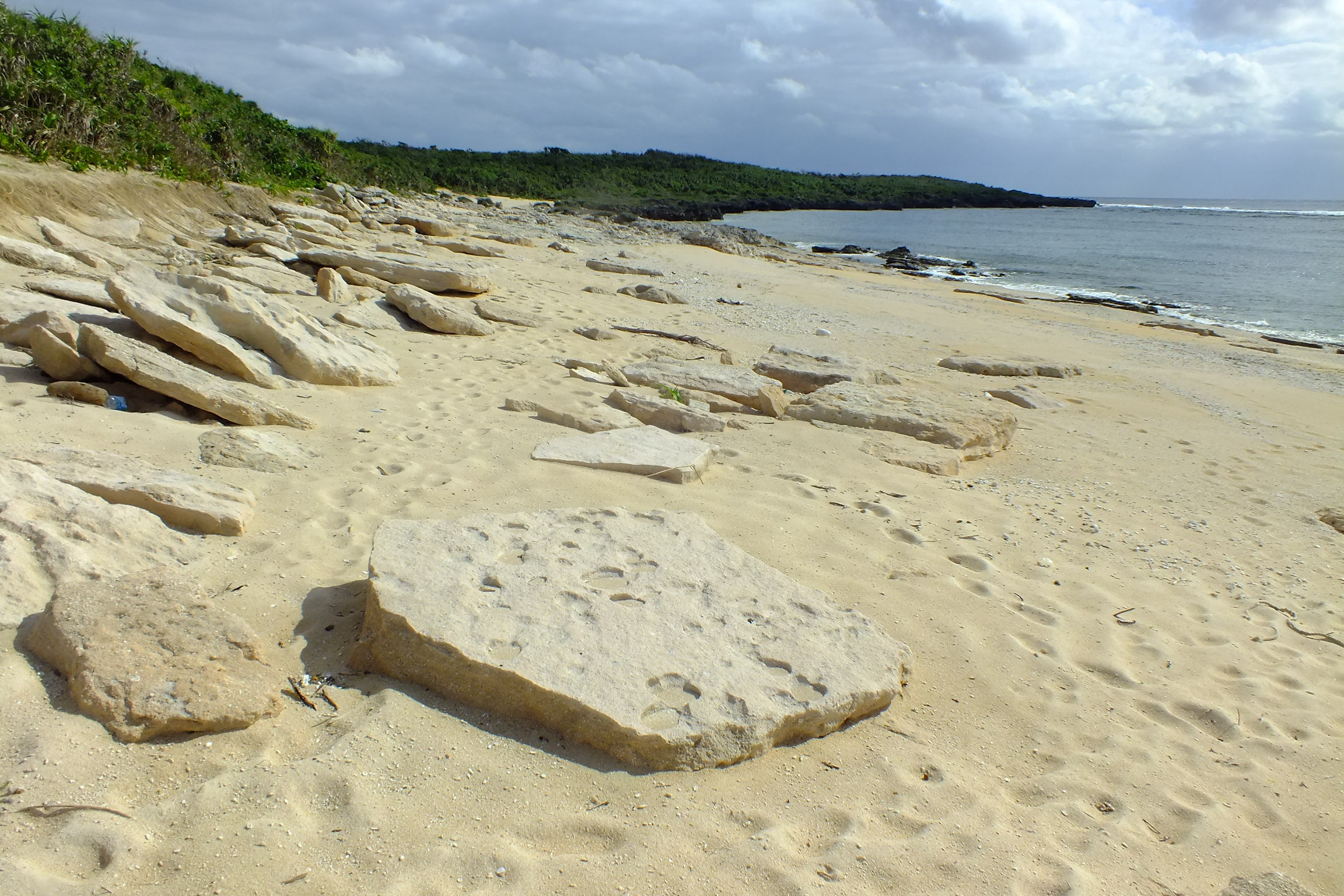 Pemuchi-Beach at Hateruma Island, Okinawa Prefecture, Japan.